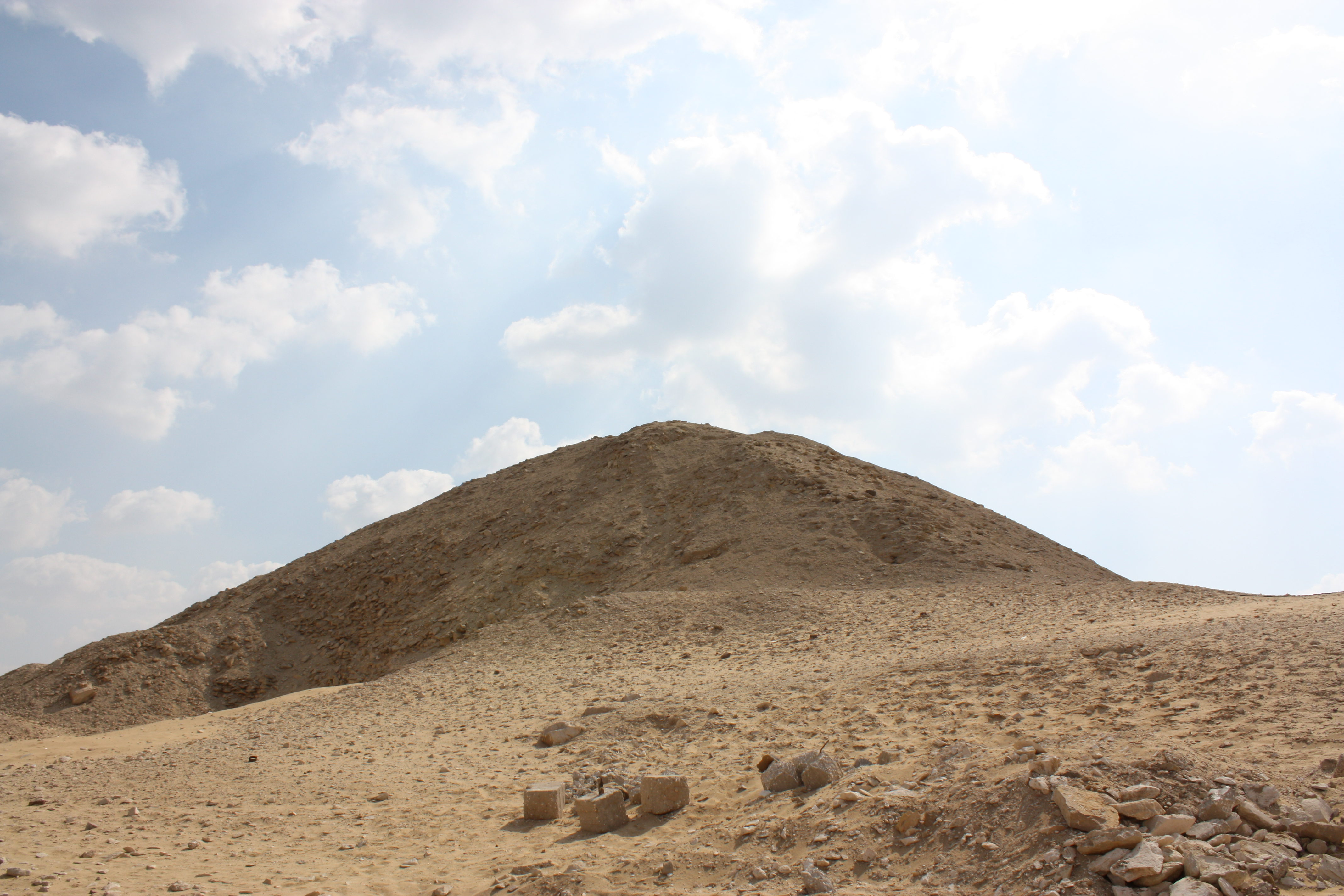 The Pyramid of Teti in Saqqara, Egypt.